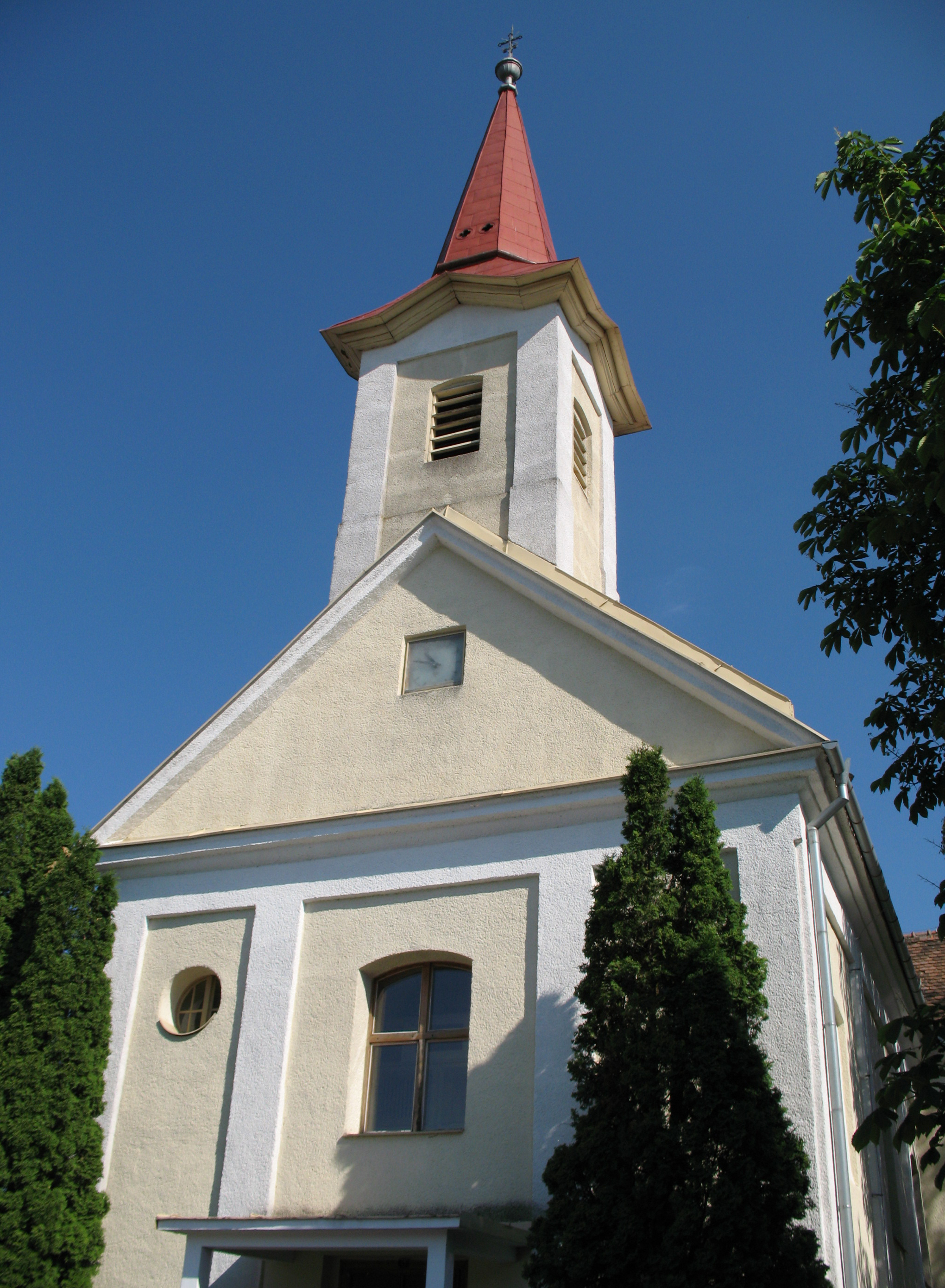 Church of Černík